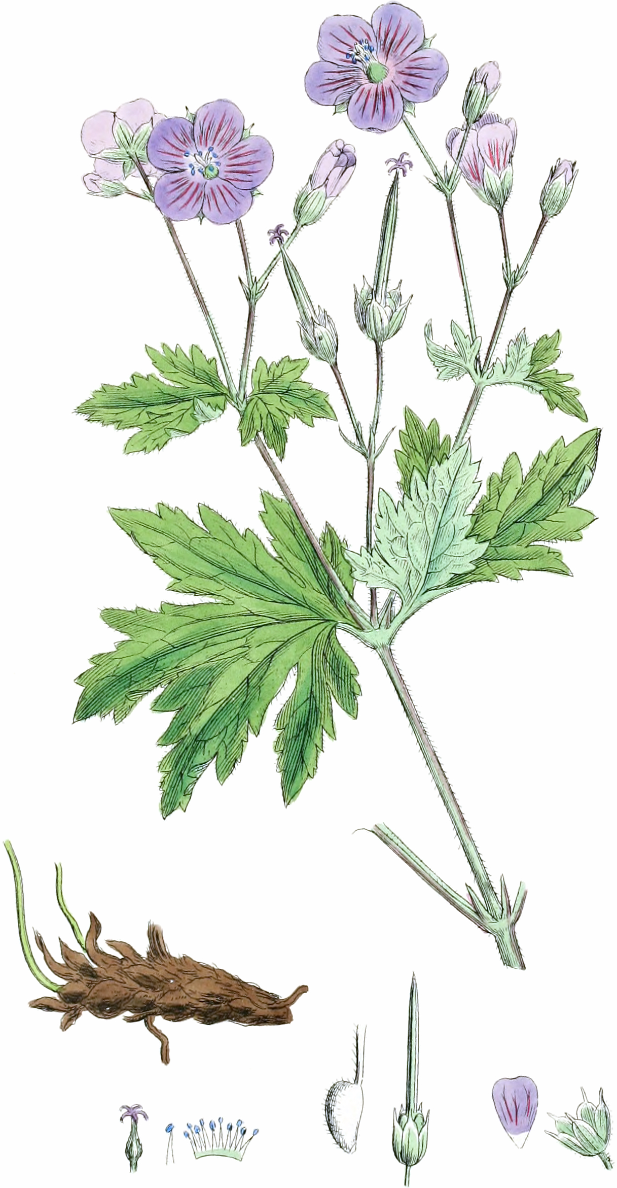 Plate CCXCVI: Geranium sylvaticum Wood Crane’s-bill